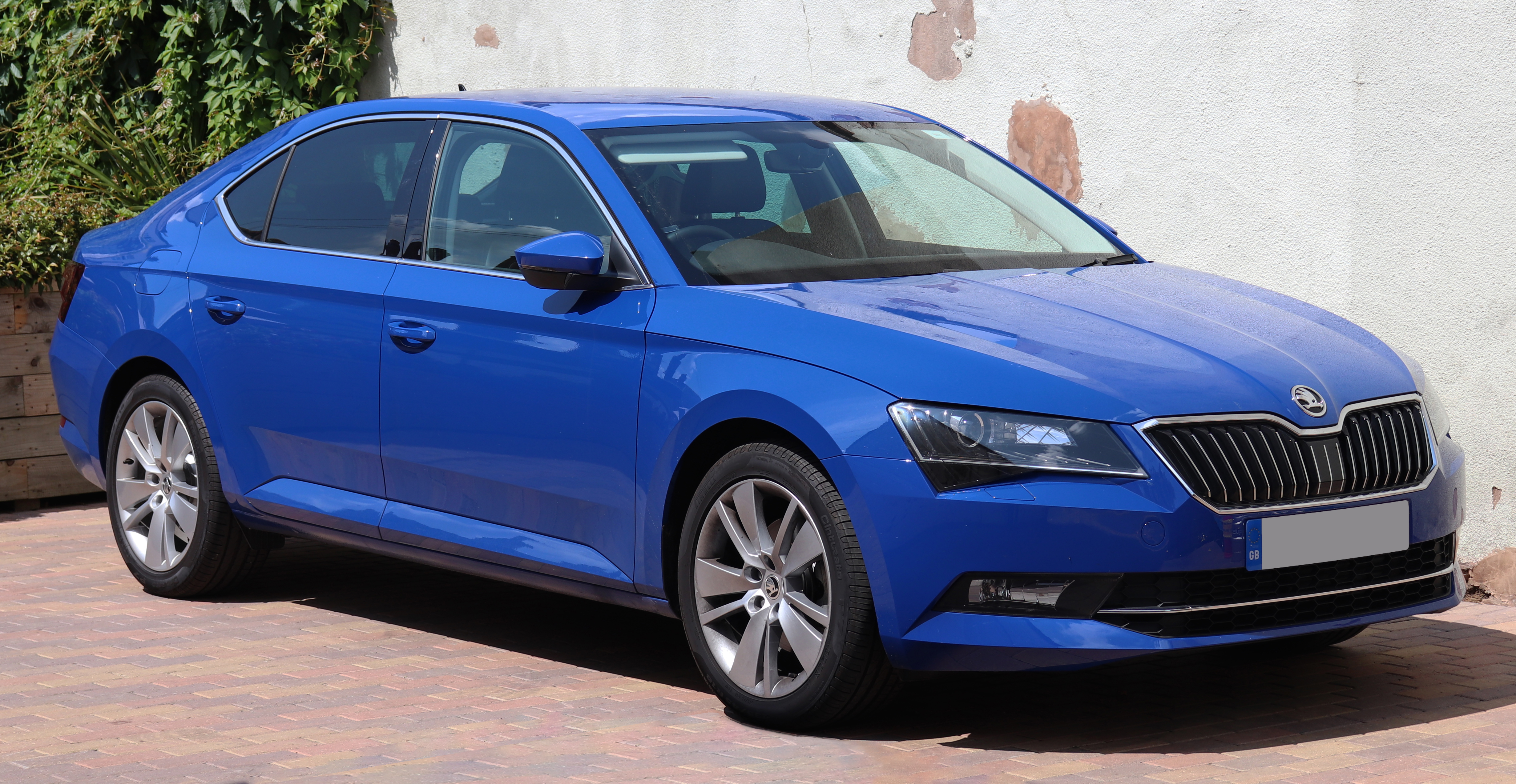 2018 Skoda Superb SE L Executive TSi 1.4 Taken in Warwick